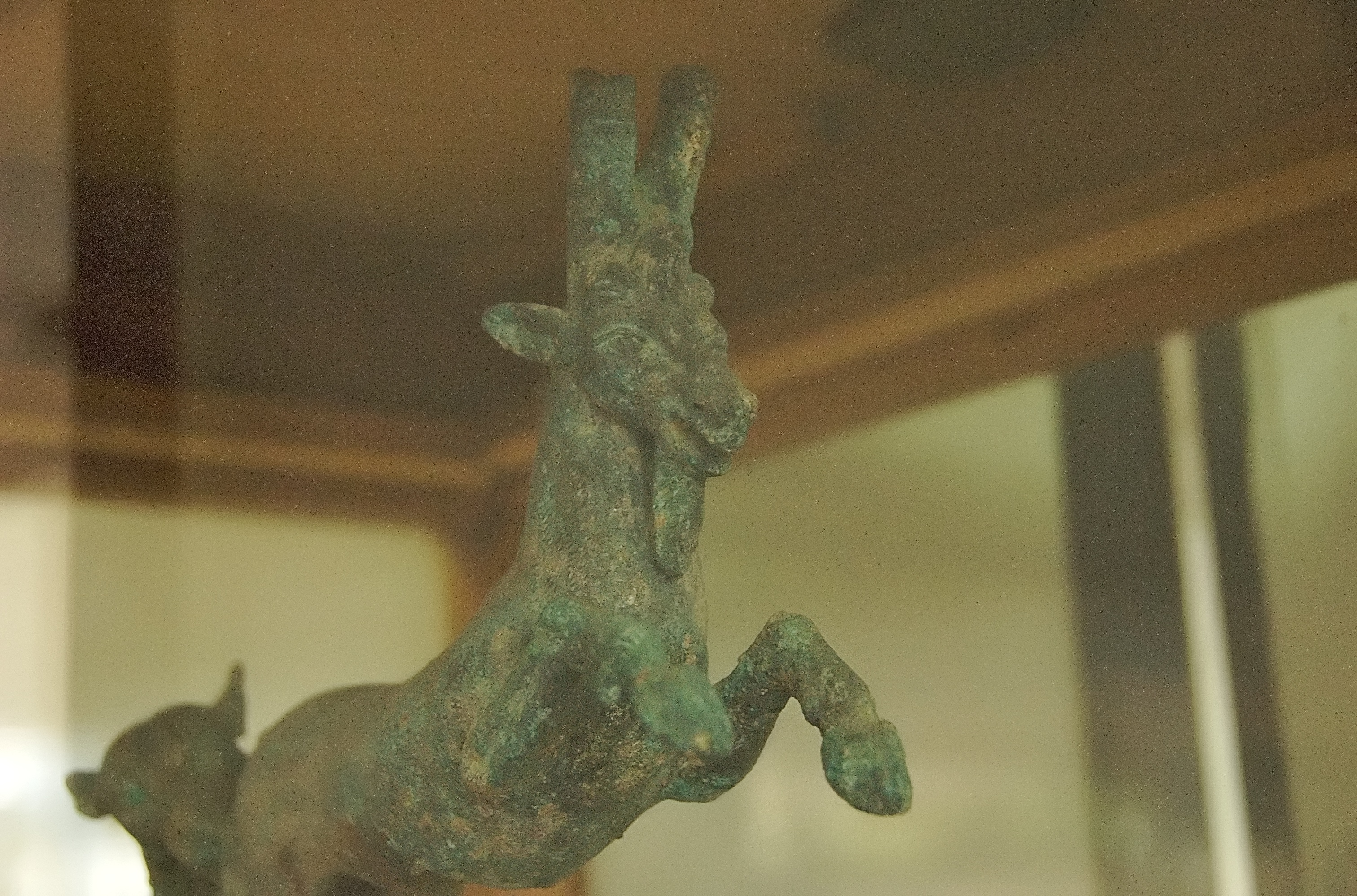 Detail of a stunningly beautiful bronze oil lamp depicting a dog hunting an ibex. First century BCE or earlier, Matara (now in Eritrea). In the collection of the National Museum, Addis Ababa, Ethiopia. Taken without flash. (I am indebted to the blog "Will's Way" for the information about this piece; the author is more thorough about documenting his museum photos than I am.) I've complied with restrictions on the use of flash, and taken photos only when permitted by the museum.